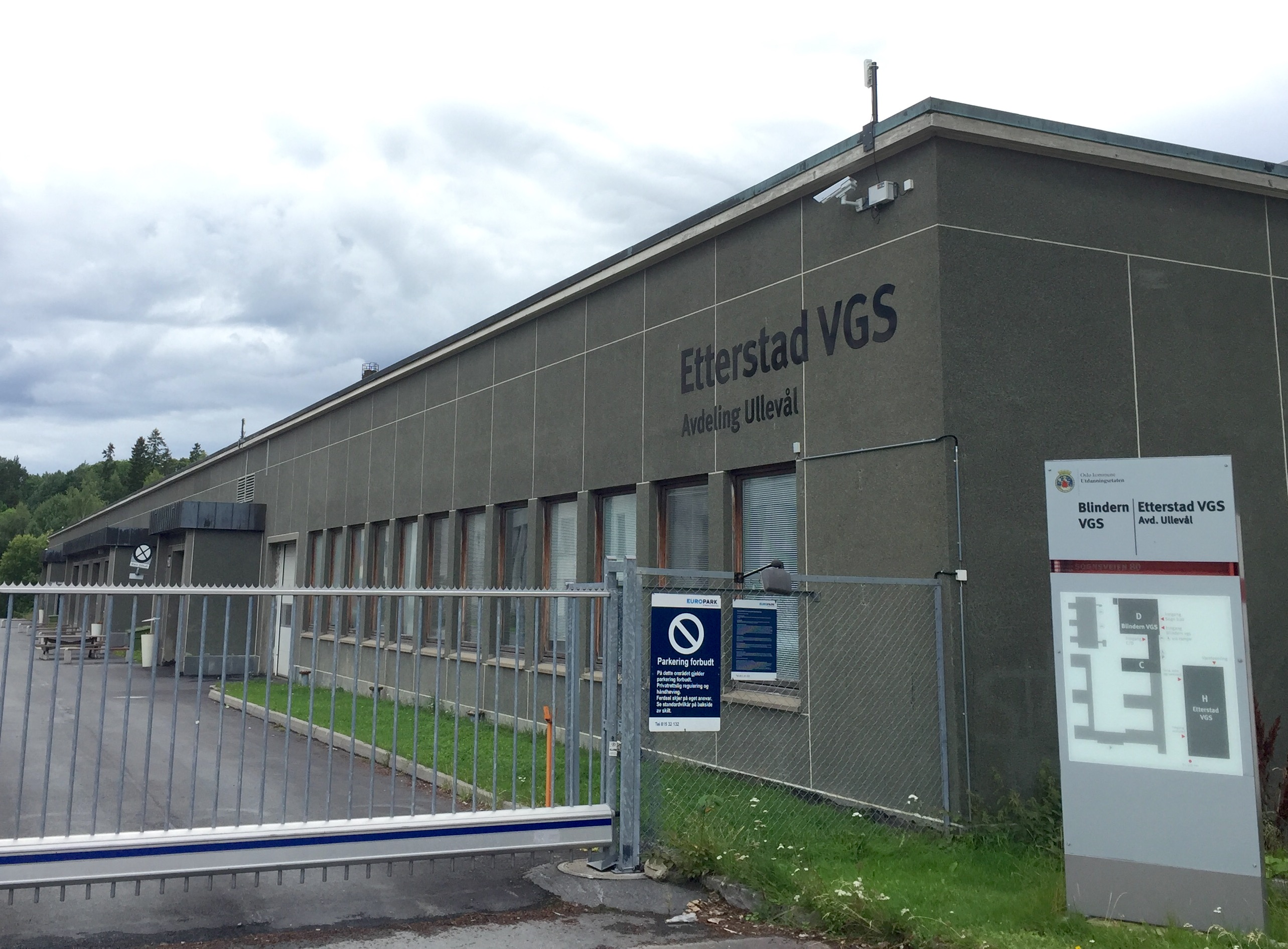 Etterstad Upper Secondary School, dept. Ullevål in Oslo